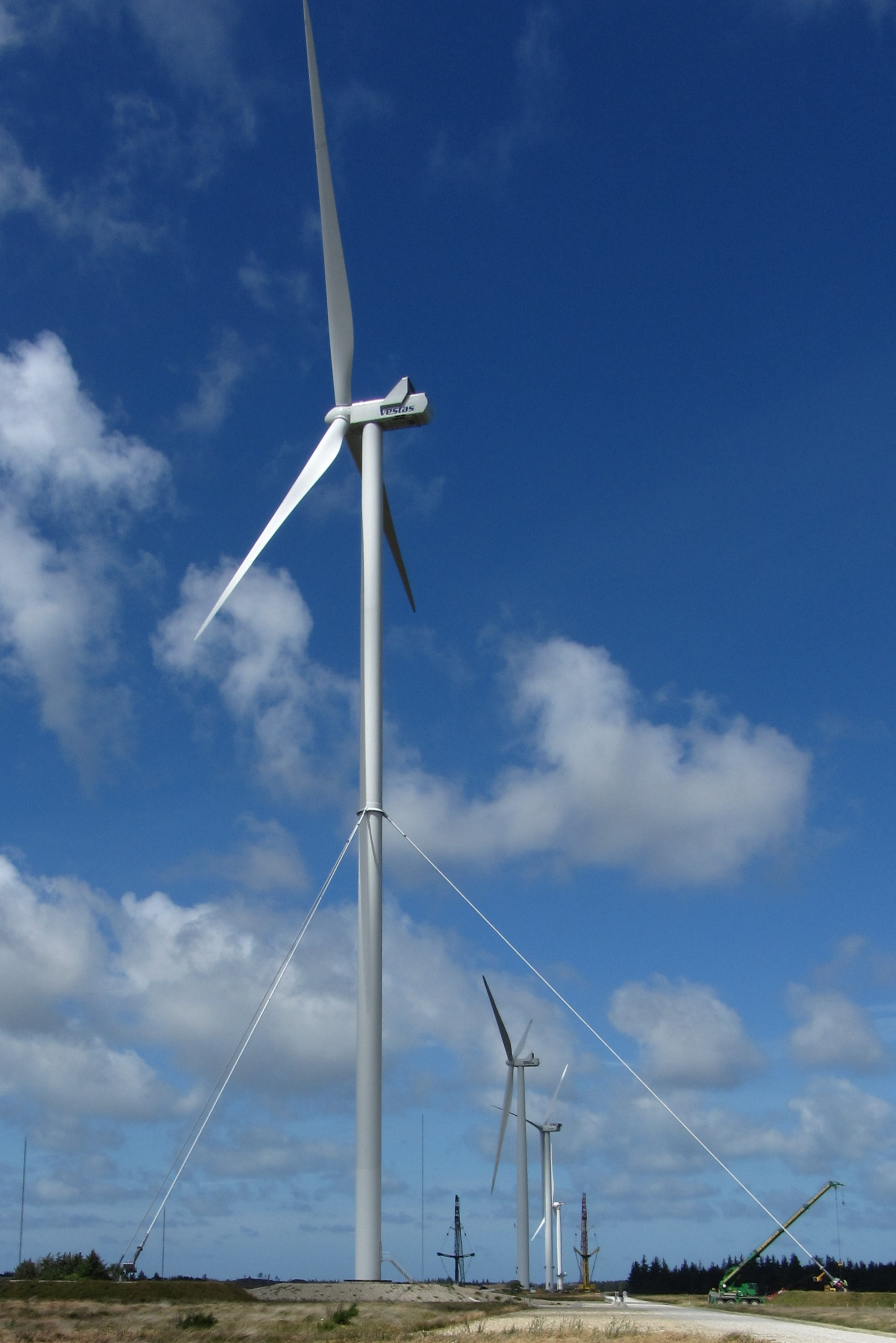 wind turbine at Notice mobile crane installing the wire foundation